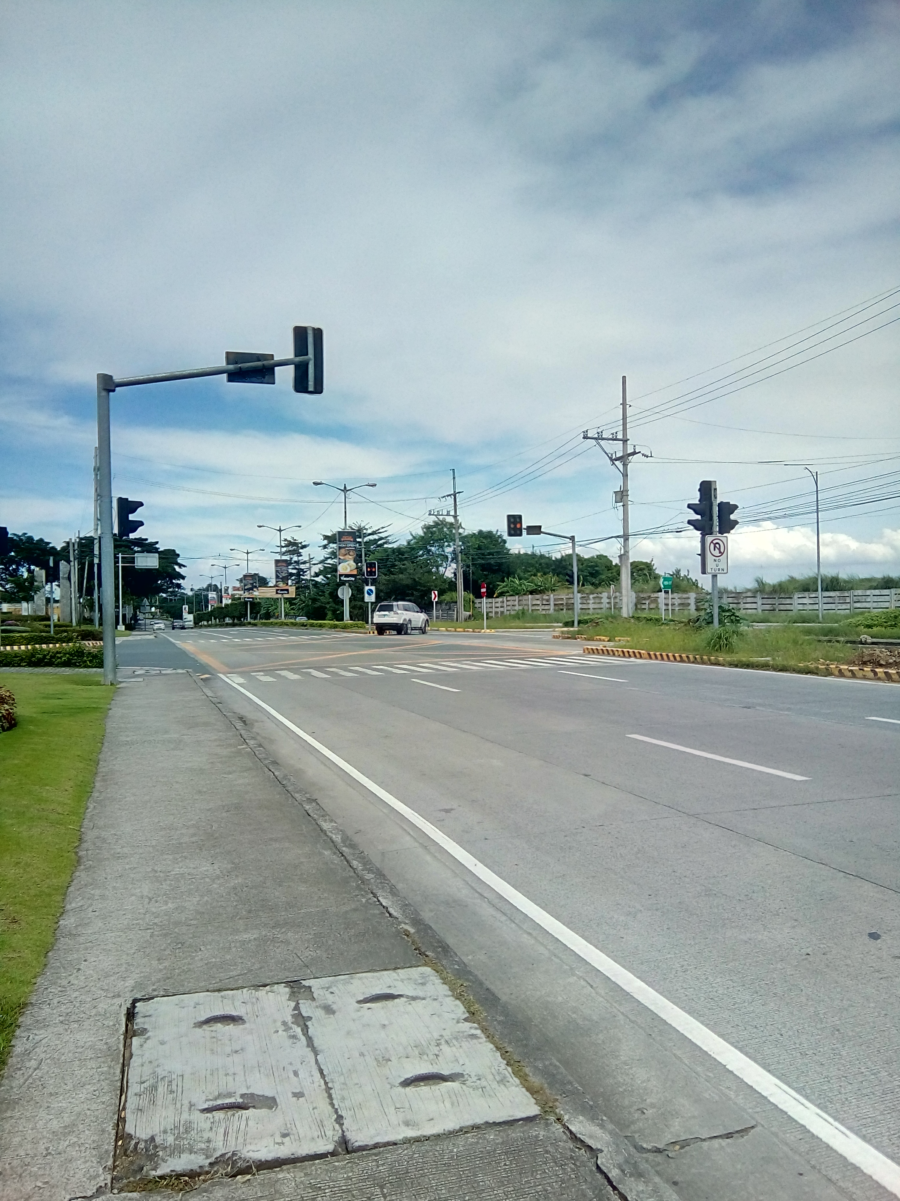 Daang Hari Road near Evia Lifestyle Center and Muntinlupa-Cavite Expressway interchange